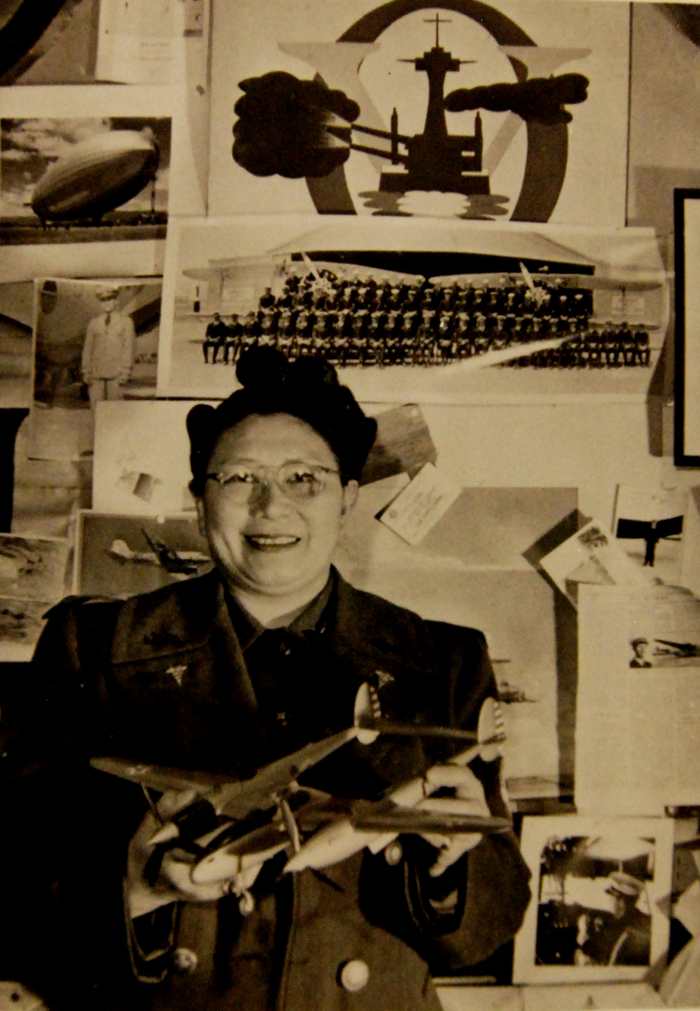 Lot-9437-6: Mother to 465 Boys. Four hundred and sixty five American fliers call Dr. Margaret Chung, a San Francisco surgeon and physician “Mom.” It all started in 1931 when three Americans asked her to help them get into the Chinese Air Force. Now, she has 465 protégés, most of them flying in the Pacific. Each carries a good luck jade piece she gave him, each keeps in touch with her wherever he is, dines with her when he gets into San Francisco, circa February 1942. Office of War Information photograph. (2015/11/20).